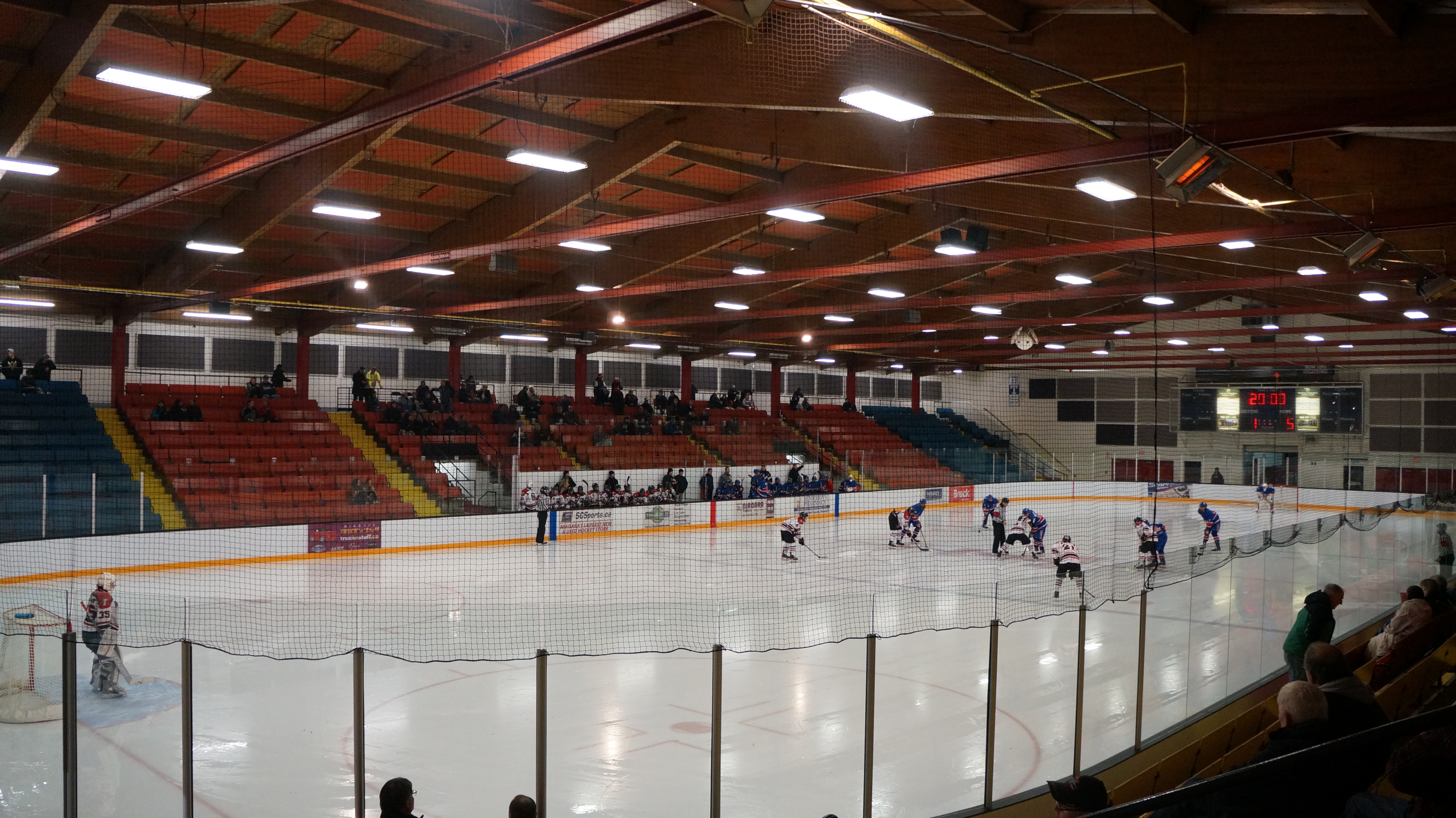 The Thorold Blackhawks hosting the Welland Canadians at the Thorold Community Arenas in Thorold, Ontario on November 8, 2018.